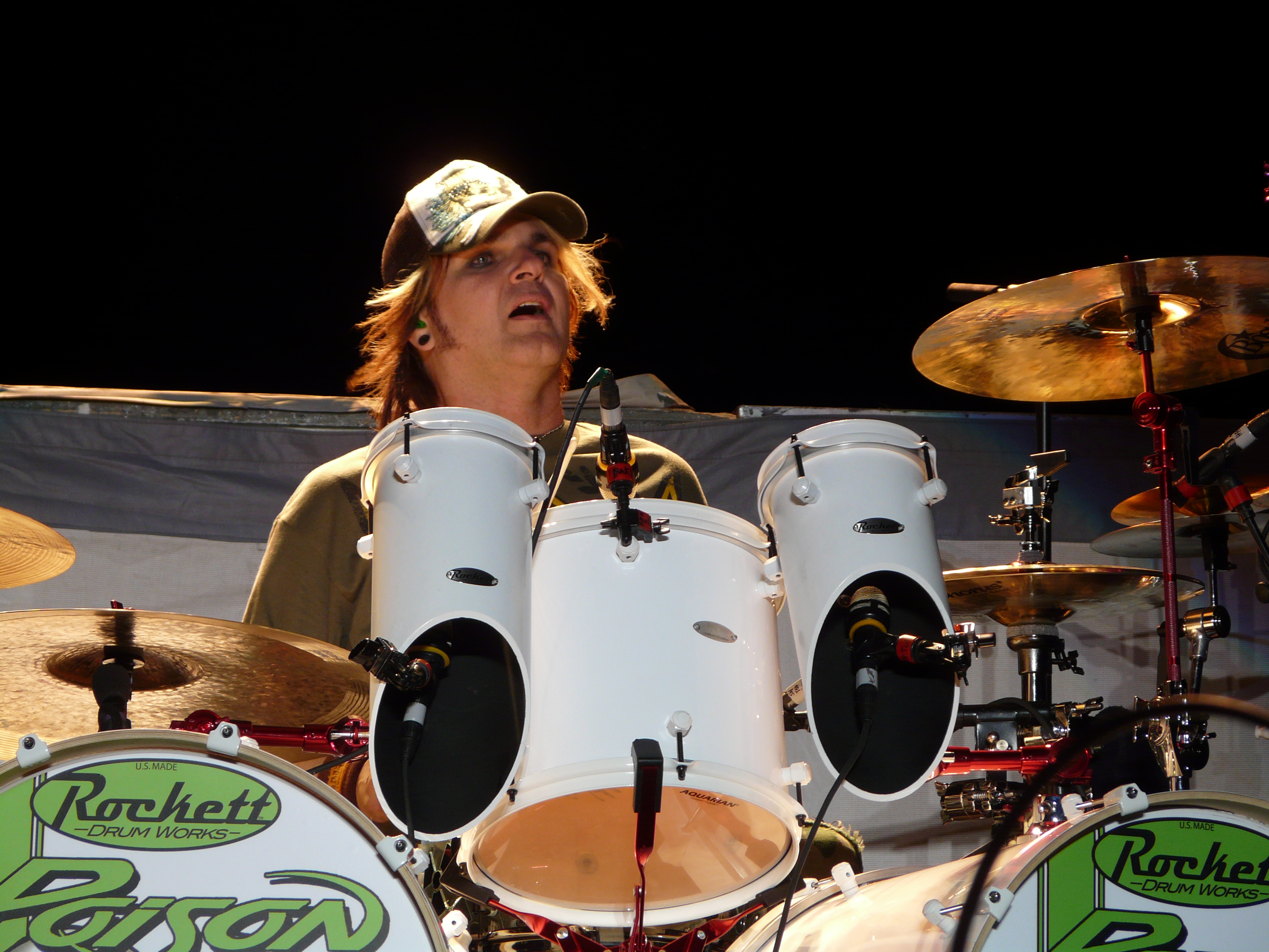 Rikki Rockett with POISON at the Moondance Jam on July 11, 2008 in Walker, Minnesota.